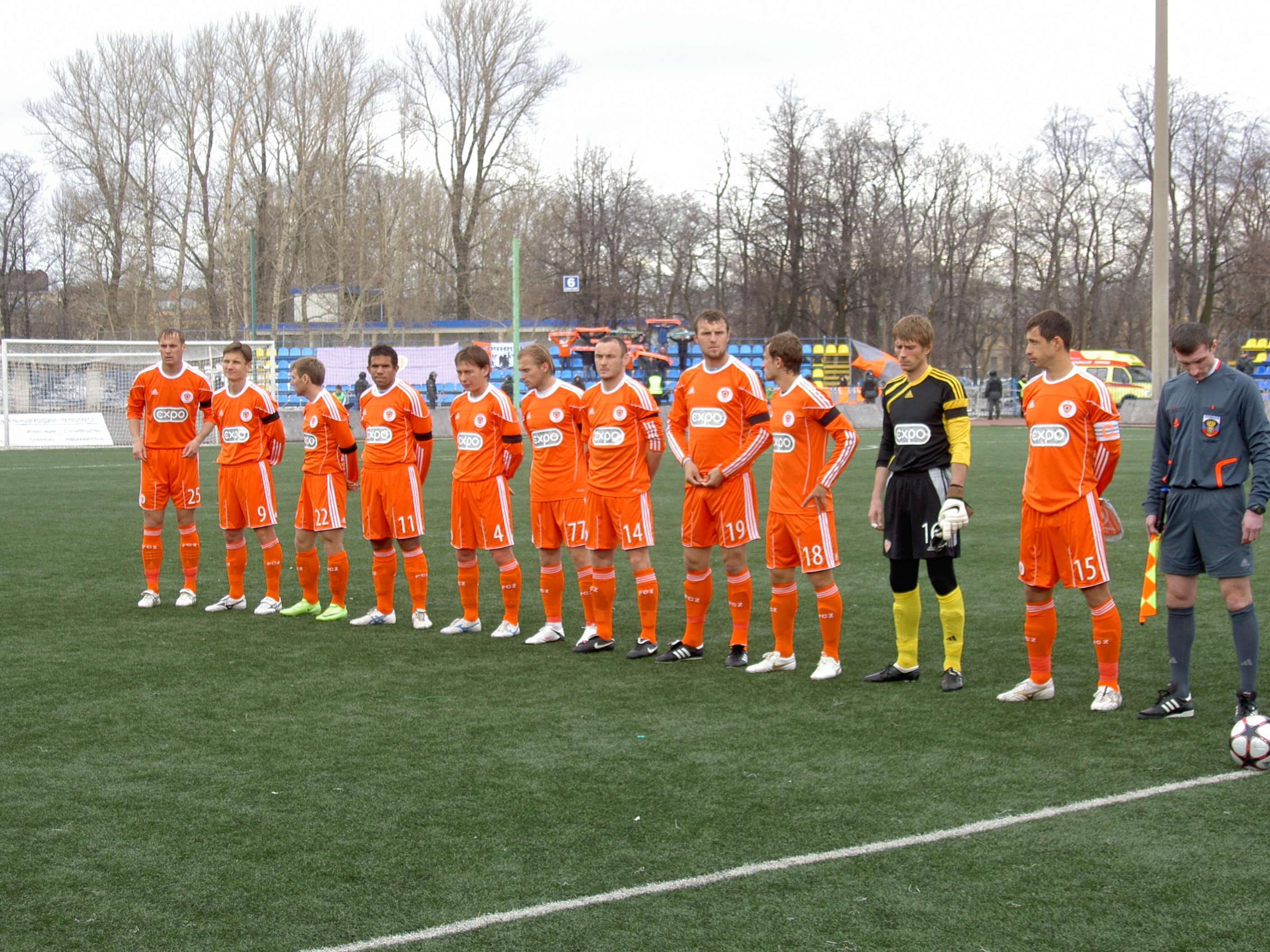 Before match between FC Dynamo Saint Petersburg and Zhemchujina-Sochi